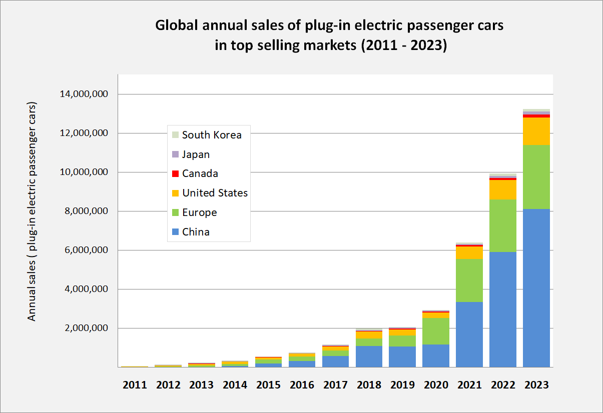 Evolution of annual sales of plug-in electric passenger cars in the world's top markets (countries/regions) between 2011 and 2019. Sources: 2011-2014 Europe: Argonne National Laboratory, Argonne, US Deparment of Energy, February 2016. 2015 Europe: ACEA - New Passenger Car Registrations By Alternative Fuel Type In The European Union Quarter 4 2016, February 2017. 2016-2017 Europe: ACEA - New Passenger Car Registrations By Alternative Fuel Type In The European Union Quarter 4 2017, February 2018. 2011-2016: China, U.S., Japan and Canada: International Energy Agency - Global EV Outlook 2018, May 2018 2017-2018: China, U.S., Japan and Canada: International Energy Agency - Global EV Outlook 2019, May 2019 2018-2019 Europe: ACEA - New Passenger Car Registrations By Alternative Fuel Type In The European Union Quarter 4 2019, February 2019 2019: China, U.S., Japan and Canada: International Energy Agency - Global EV Outlook 2020, June 2020